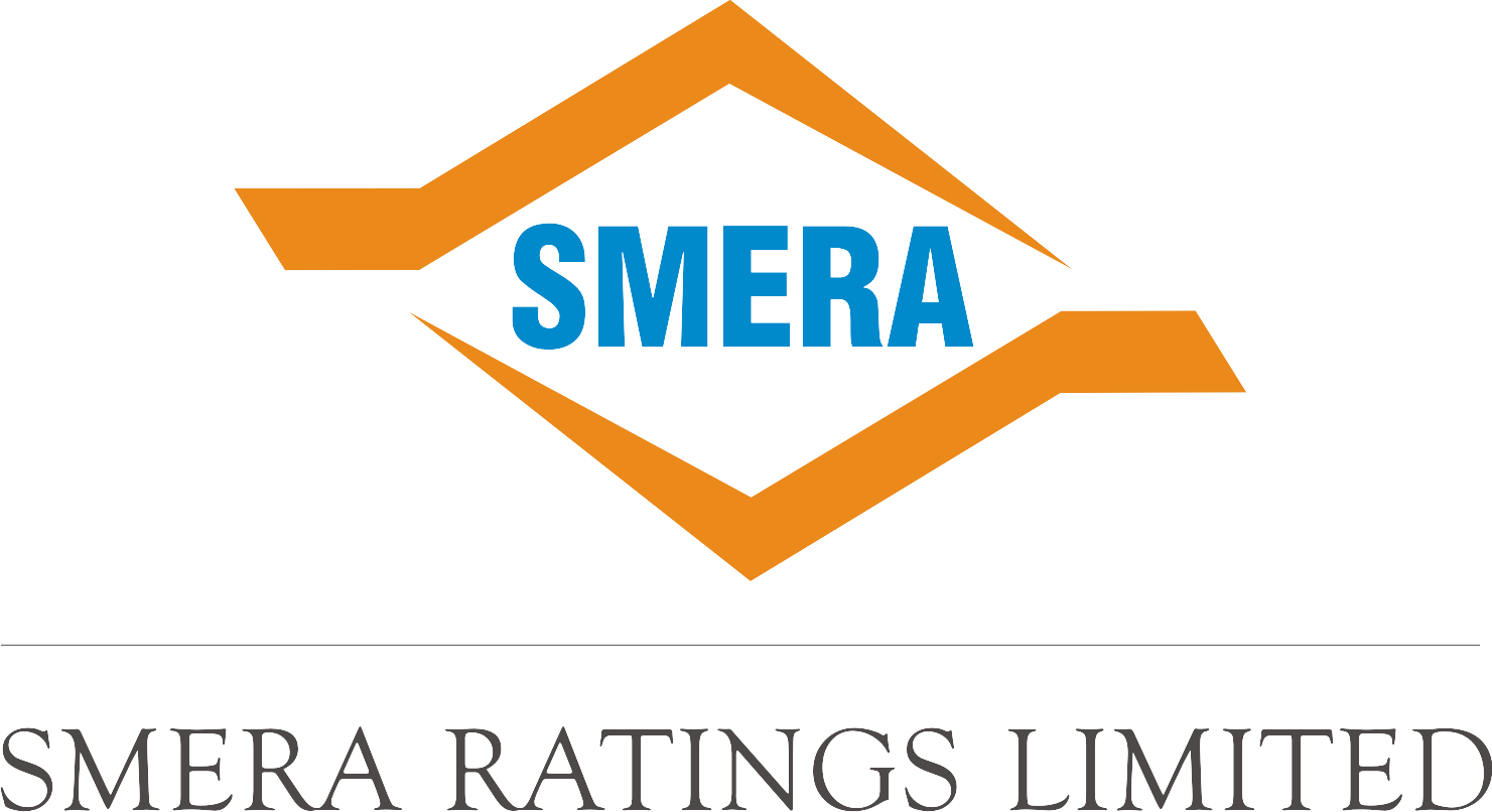 SMERA Ratings Ltd logo